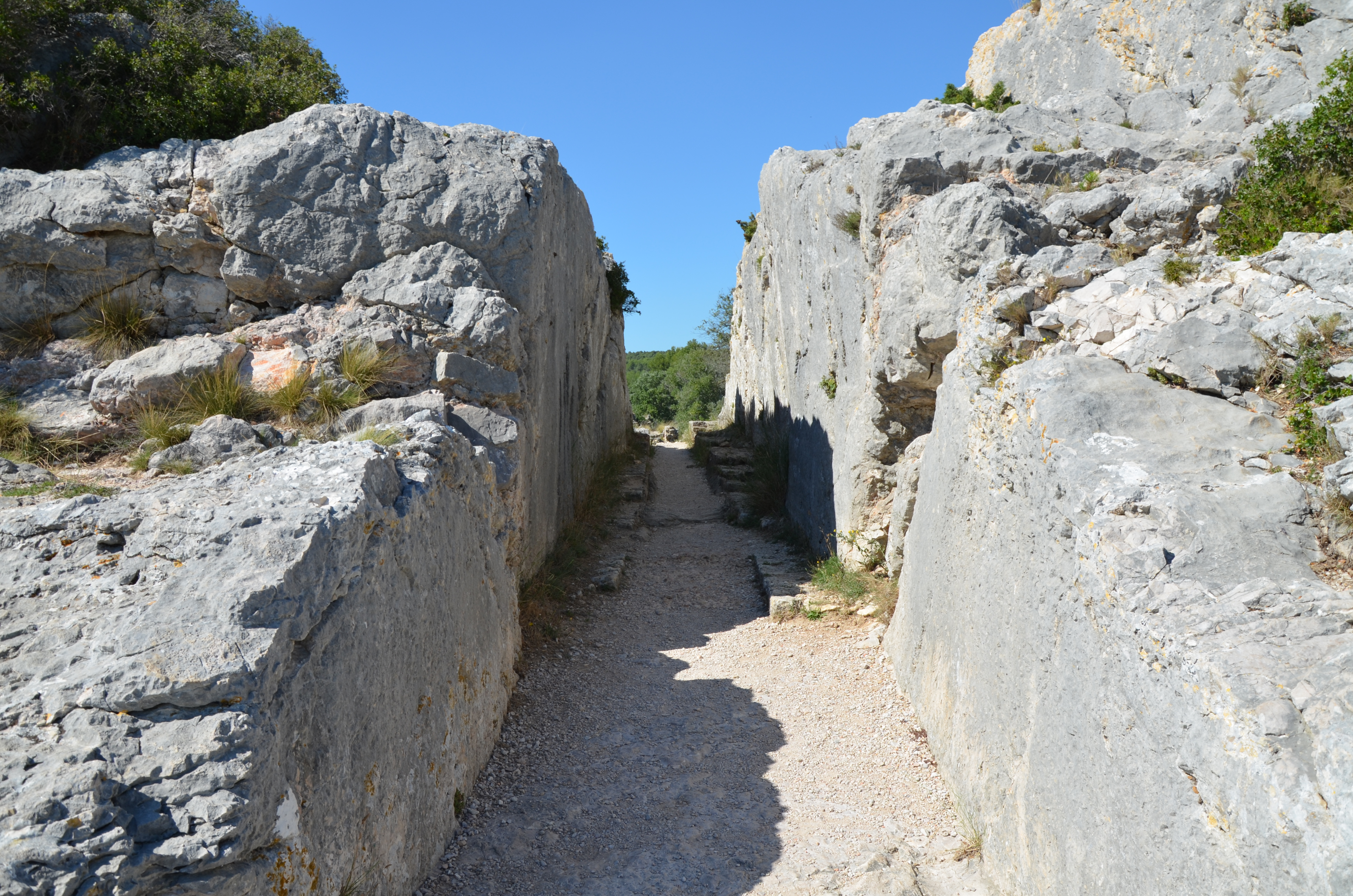 The cut for the channel that delivered water to the mill at Barbegal, Barbegal aqueduct and mill, France